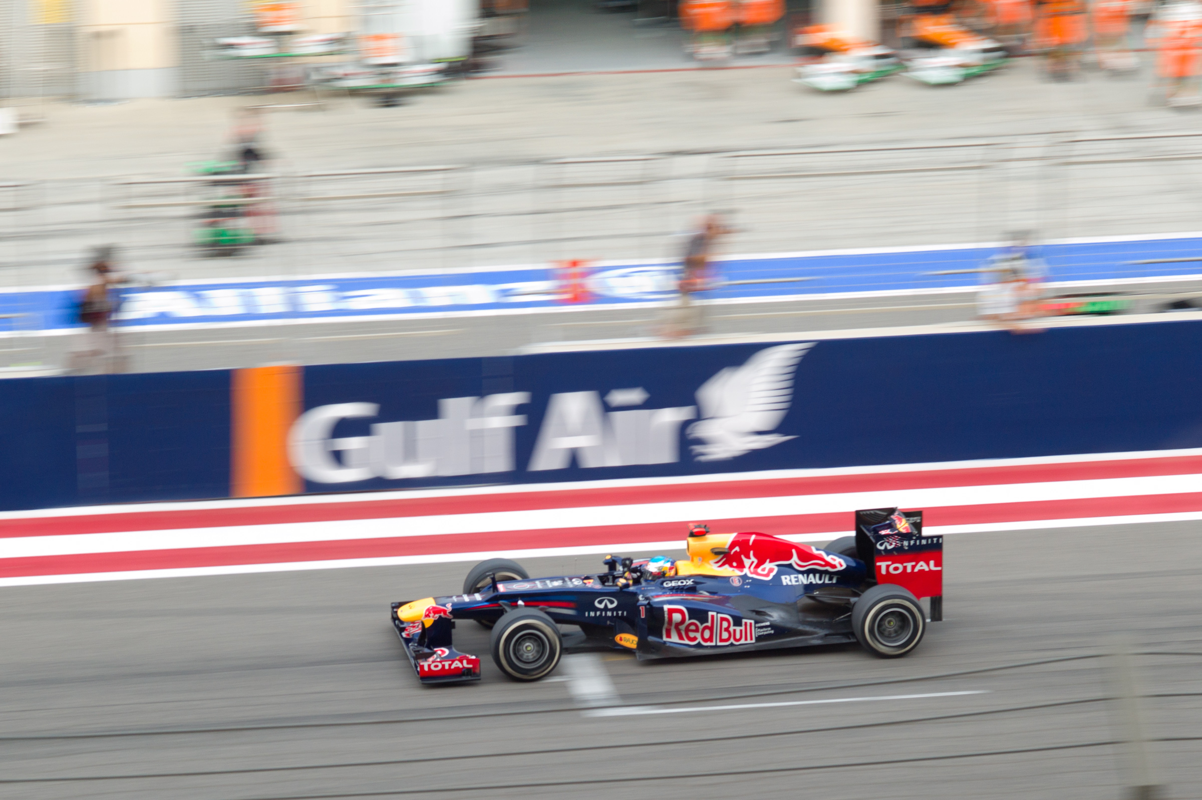 Pictures from the 2012 Bahrain F1 Vettel crosses the finish line and claims victory.